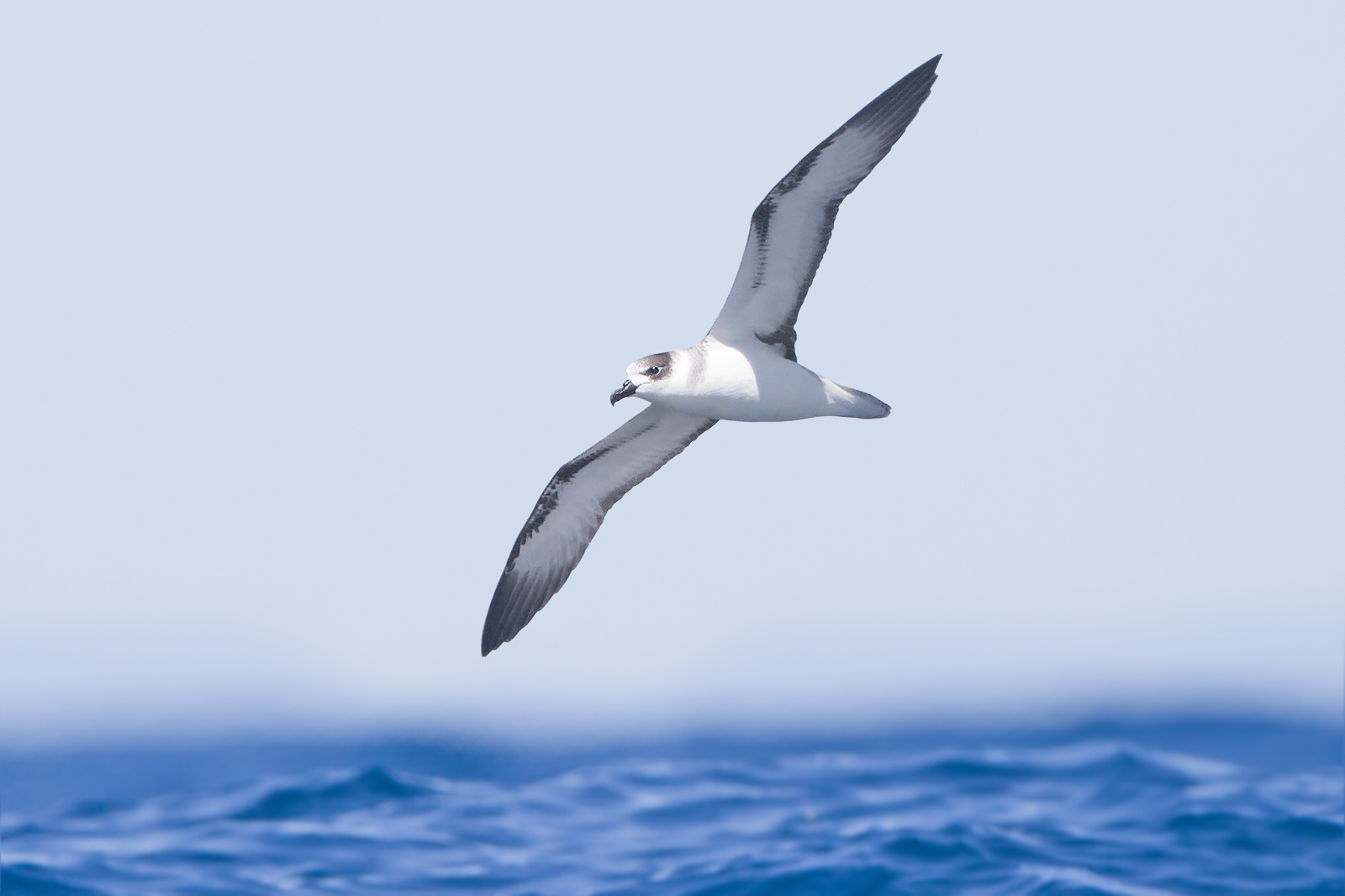 White-necked Petrel (Pterodroma cervicalis), East of the Tasman Peninsula, Tasmania, Australia